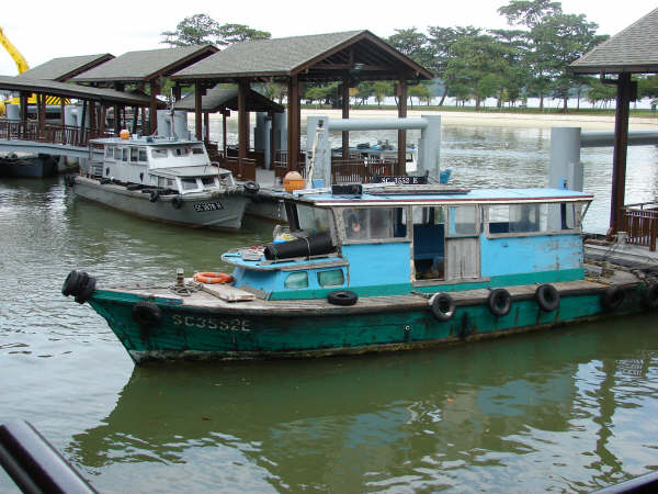 A bumboat at Changi Village Jetty in Singapore which is used to ferry passengers to Pulau Ubin.